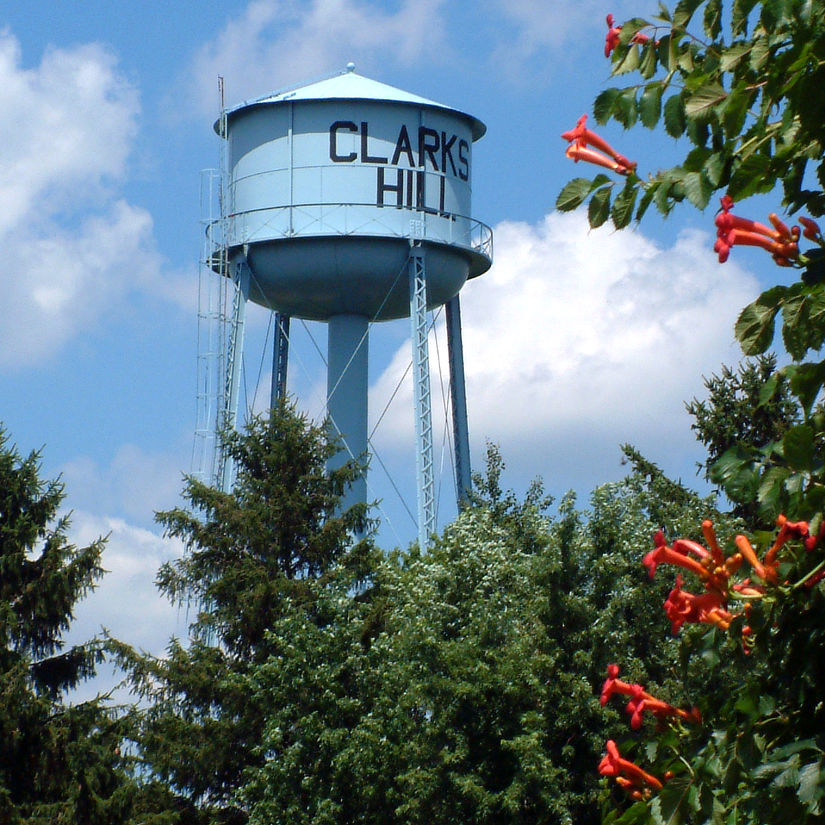 The water tower for the town of Clarks Hill in Tippecanoe County, Indiana. Flowers in the foreground are trumpet vine. Photo looks northeast.